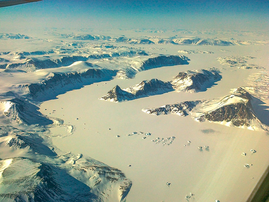 5th May 2012: North Polar flight with Air Berlin - Flight back to Northeast Greenland - Nanok Ø, Vivian Fjeld and Tvillingerne (Photographer: Basti, Editor: Hedwig)